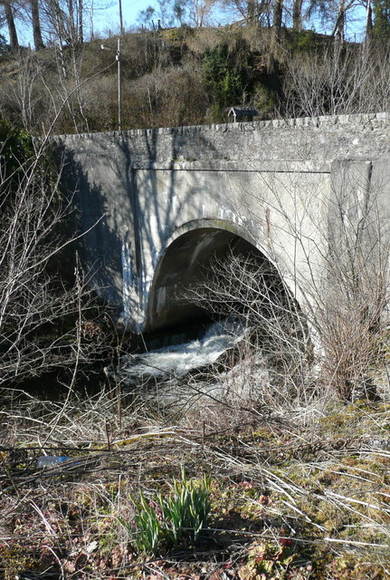 Old A9, now B8079, crosses the Allt Girnaig The Allt Girnaig tumbles under the before joining the River Garry.